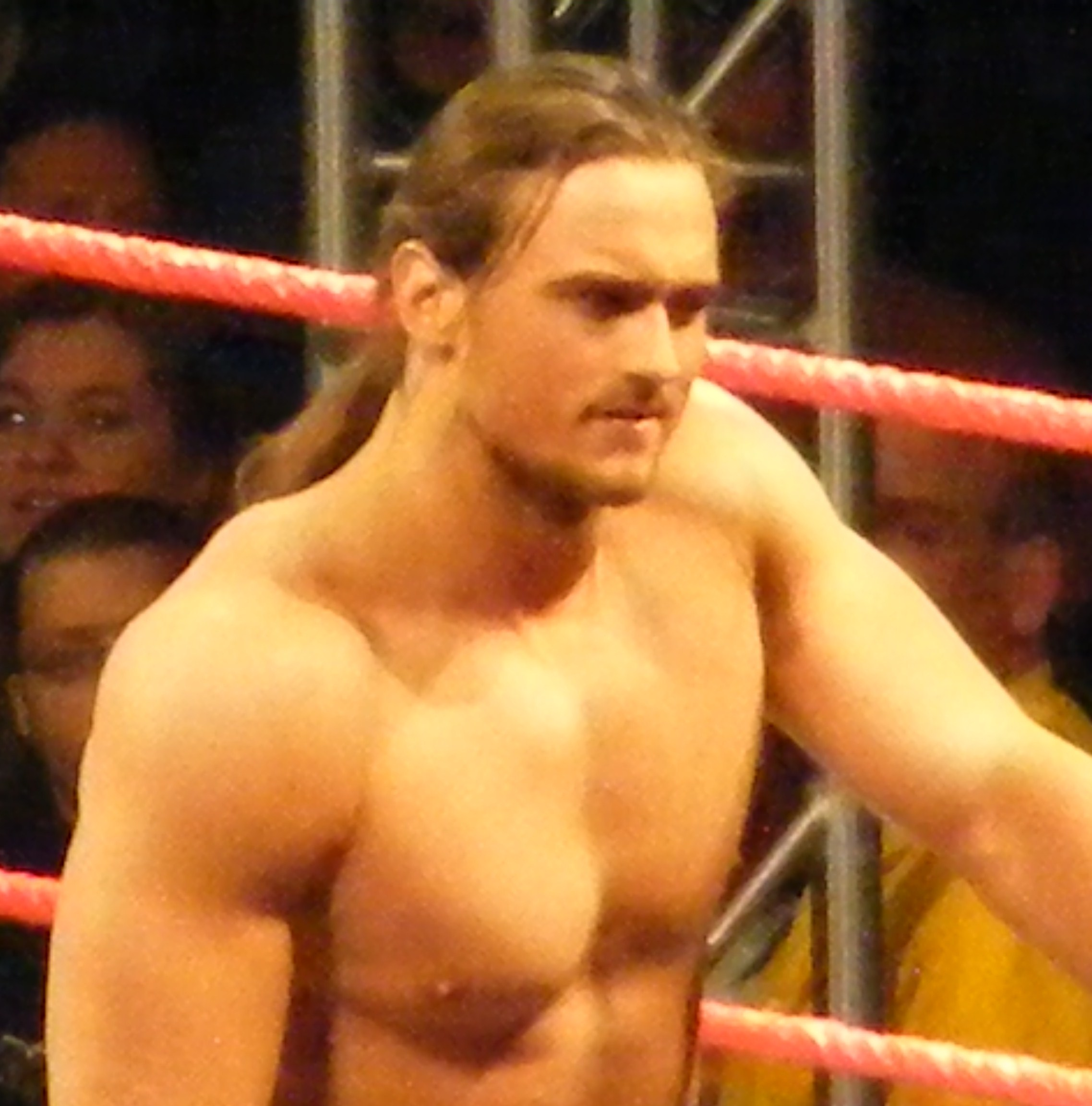 Professional wrestler Drew McIntyre (real name Drew Galloway) prior to a match against John Morrison at a WWE house show in Syracuse on December 30, 2009.